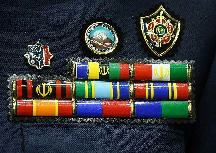 Collection of military ribbon bars of Iranian general.